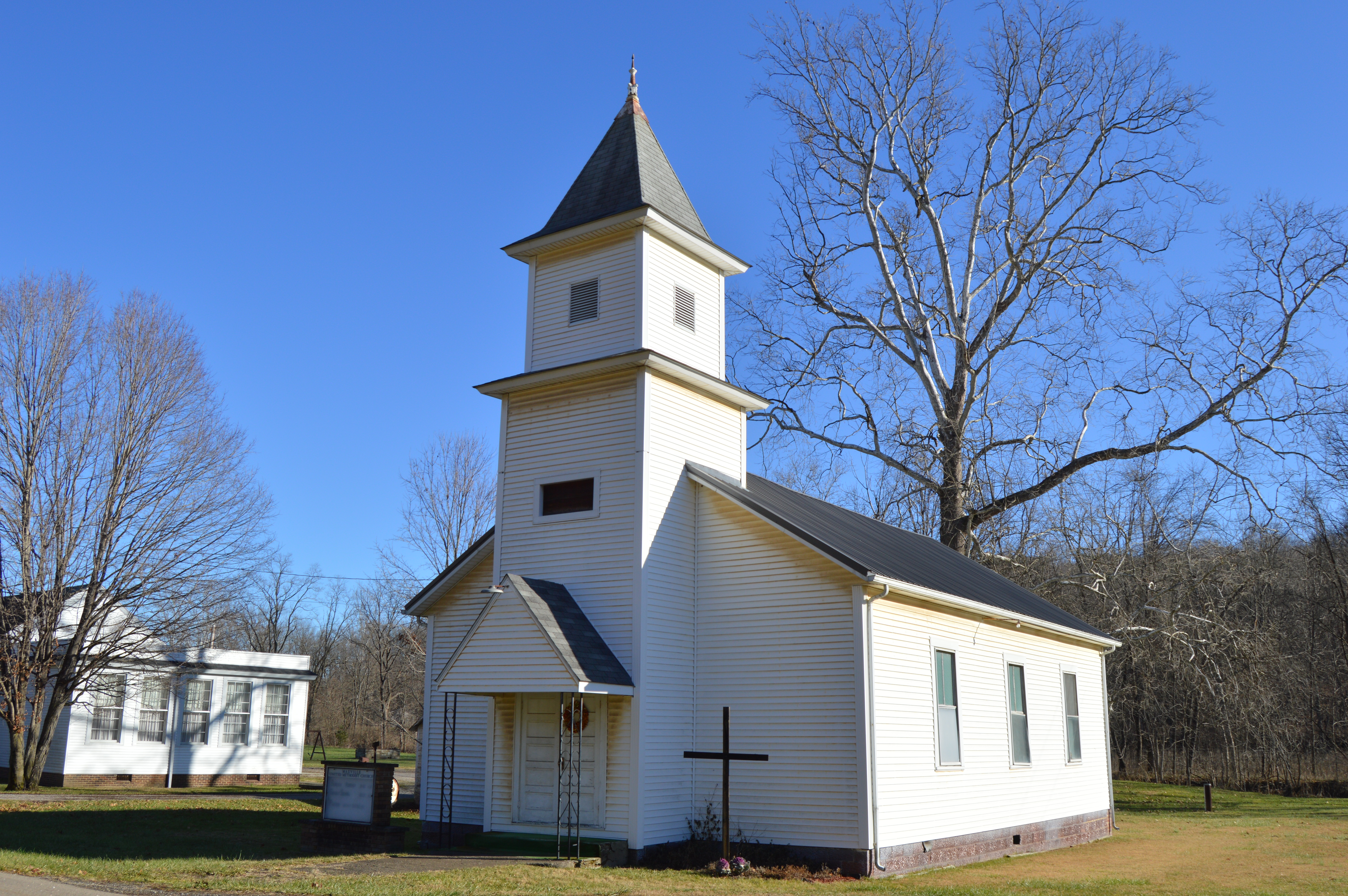 Front and southern side of the Maxville United Methodist Church, located on State Route 668 at Maxville in Monday Creek Township, Perry County, Ohio, United States.